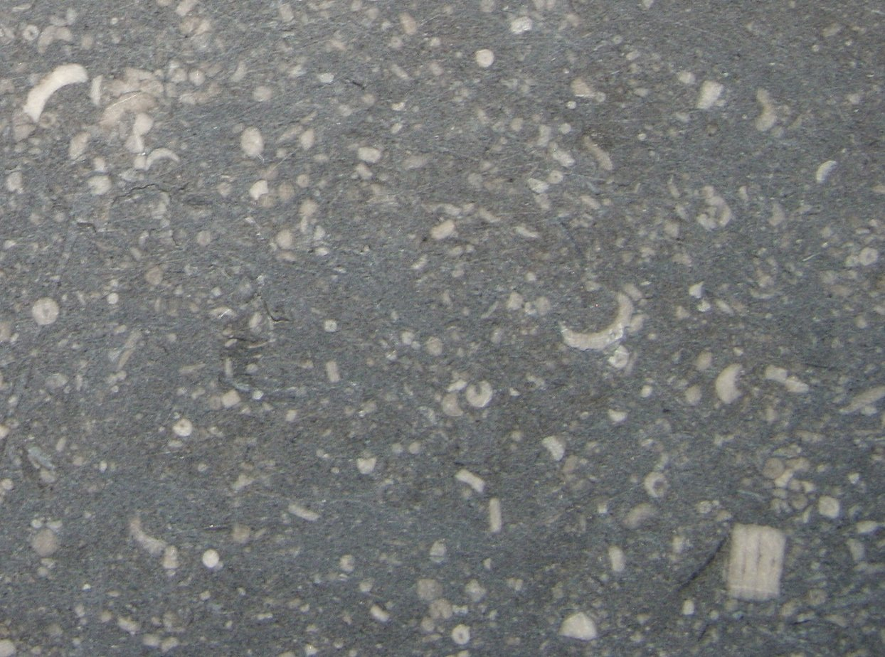 Belgian crinoid limestone